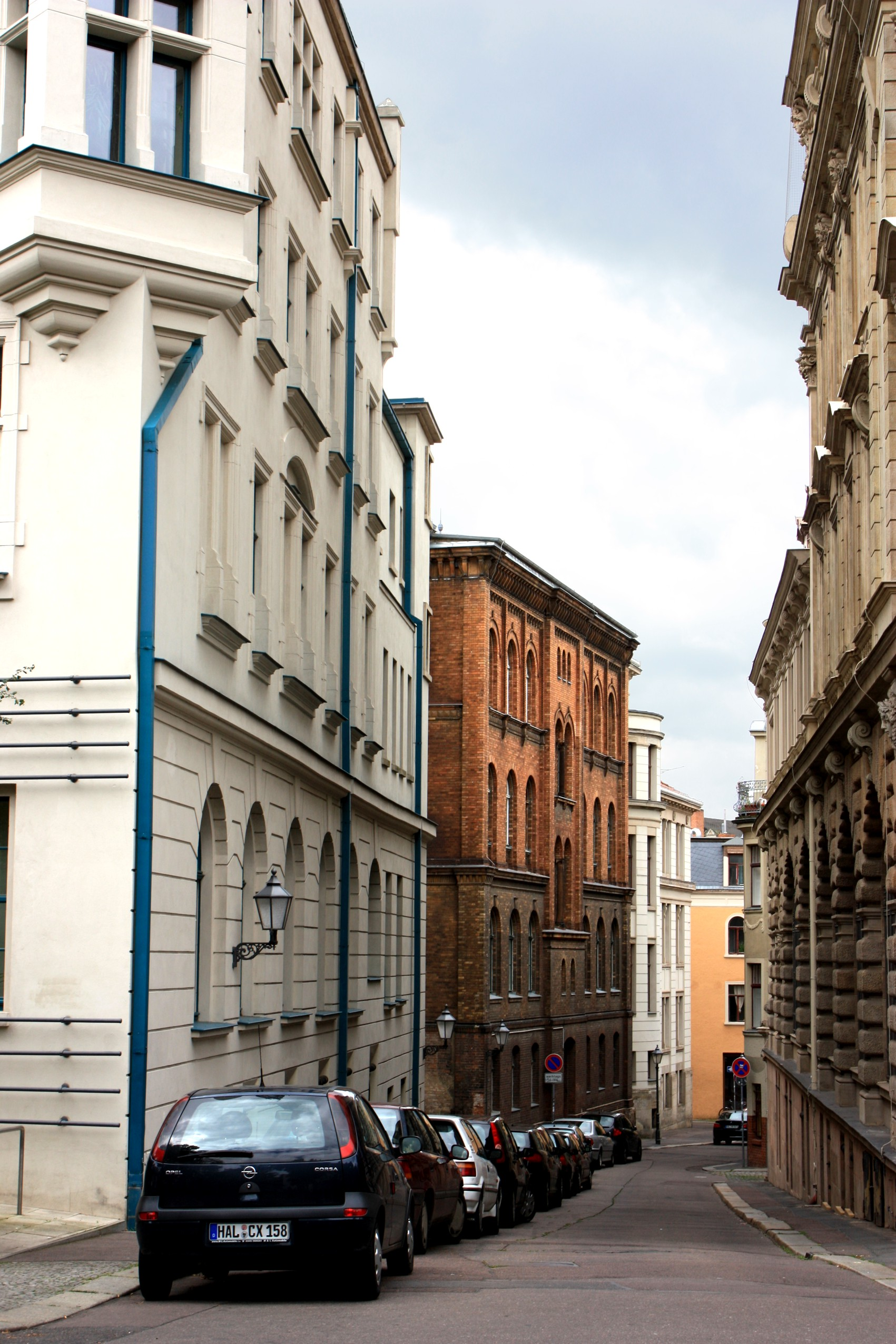 Halle (Saale), the street "Kaulenberg"